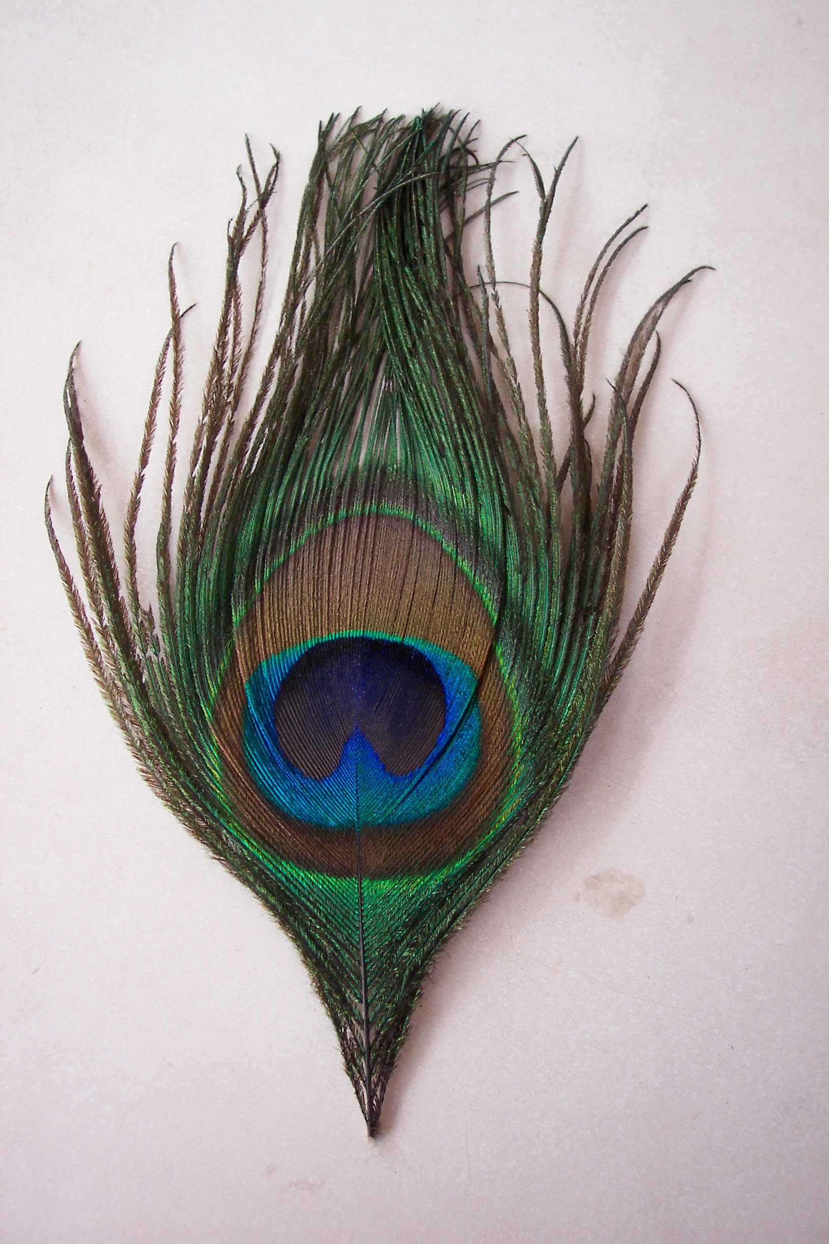 Animals of Israel